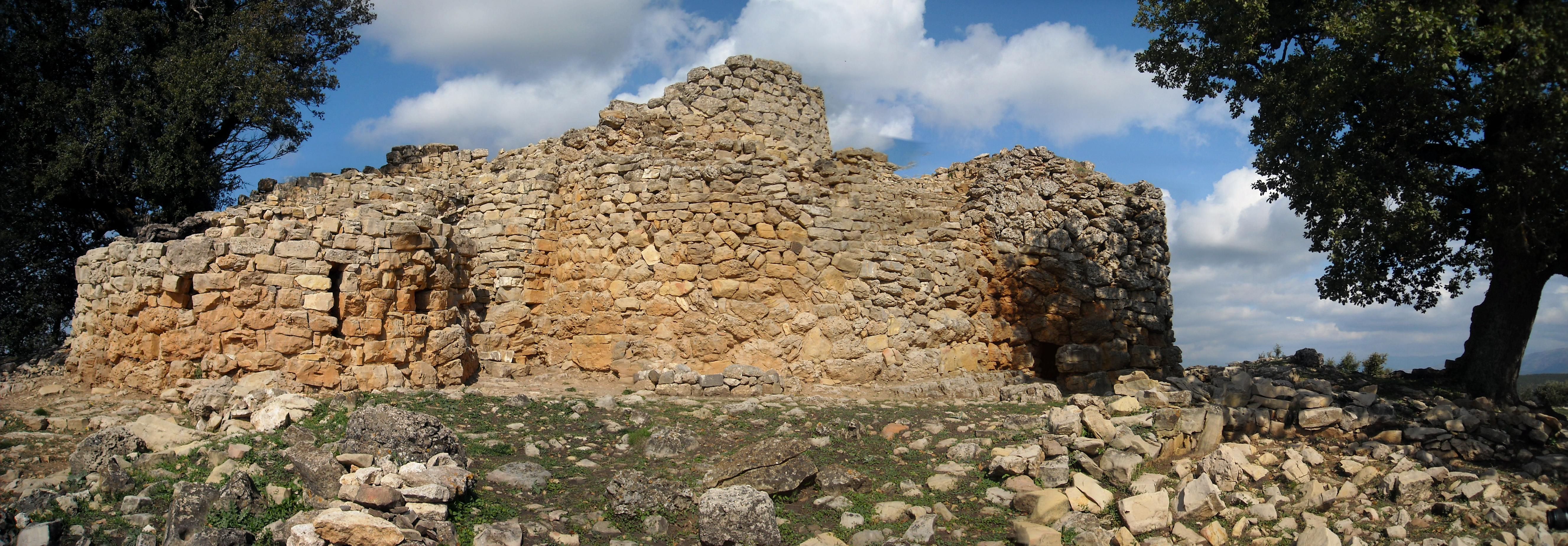 Nuraghe Adoni in Villanovatulo , Sardinia-Italy